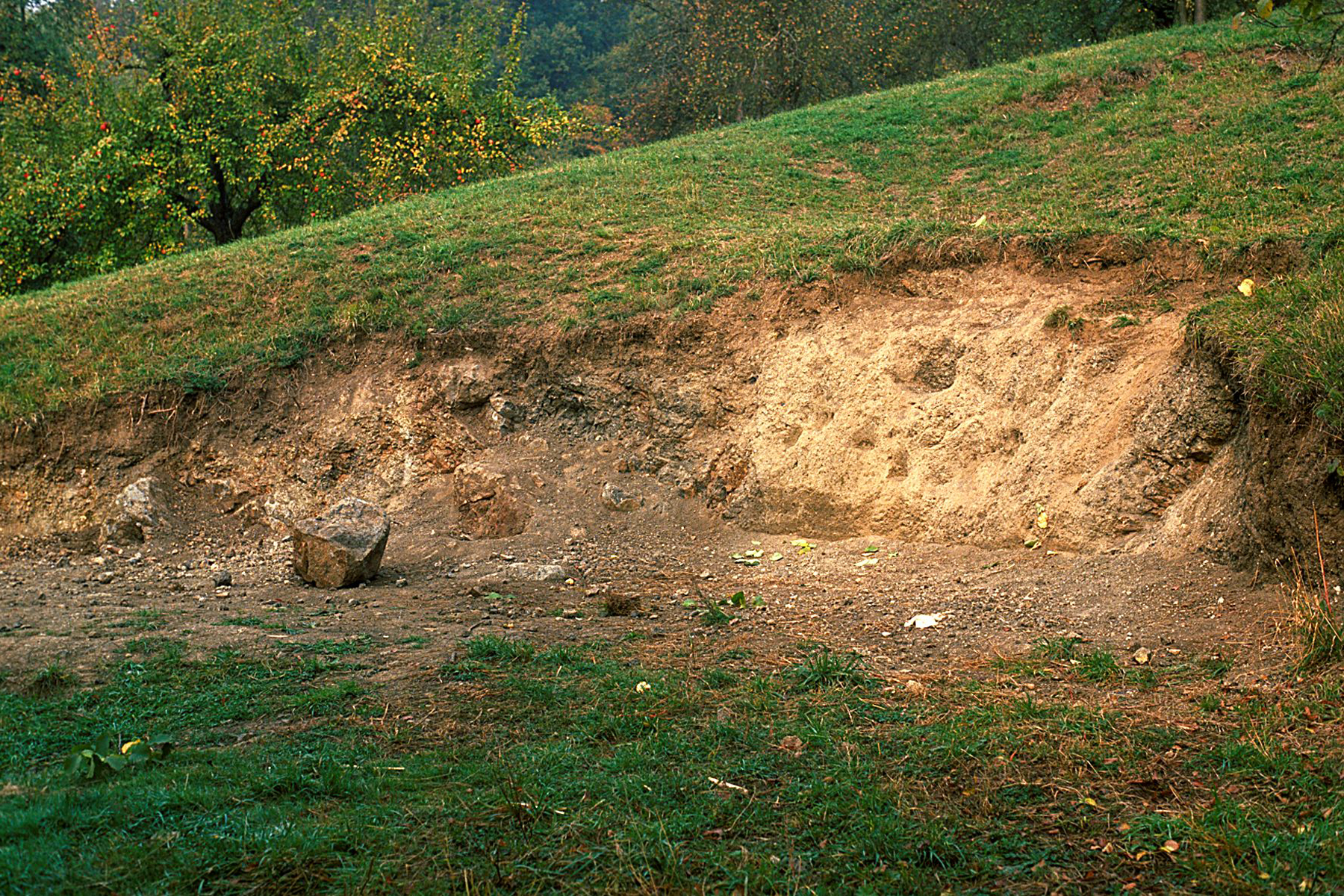 Very small volcano in Scharnhausen (9km southeast of Stuttgart), the northern of the “Urach-Kirchheimer-Vulkangebiet” (355 diatremes, active only in Miocene), Middle Swabian Alb. Digging a small geological outcrop resulted in pyroclasts, mainly lapilli with foreign inclusions. The diatreme is geologically very important, because all three (!) lithostratigraphic units of the South German Jurassic were found amongst the pyroclasts. Finding White Jurassic means: in Miocene the Alb plateau either extended to Scharnhausen, or, there was a partial extension to the plateau.